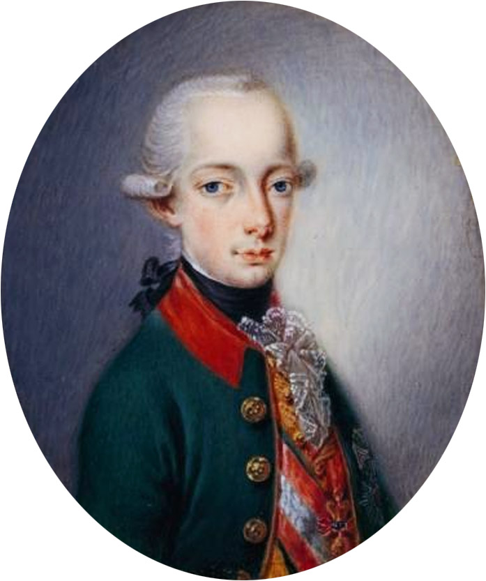 Portrait of Emperor Francis II (1768-1835)